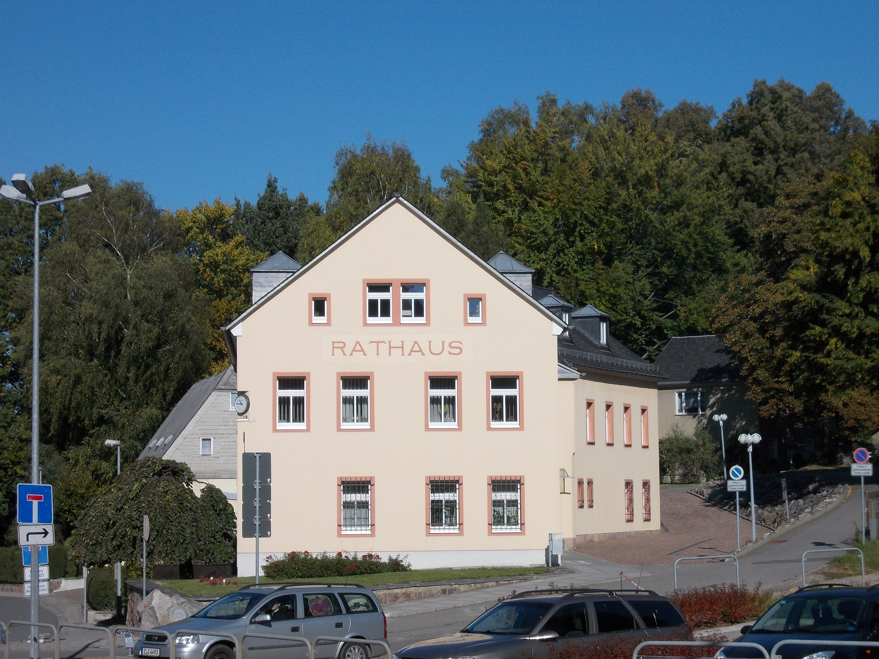 Hartmannsdorf town hall (Mittelsachsen district, Saxony)